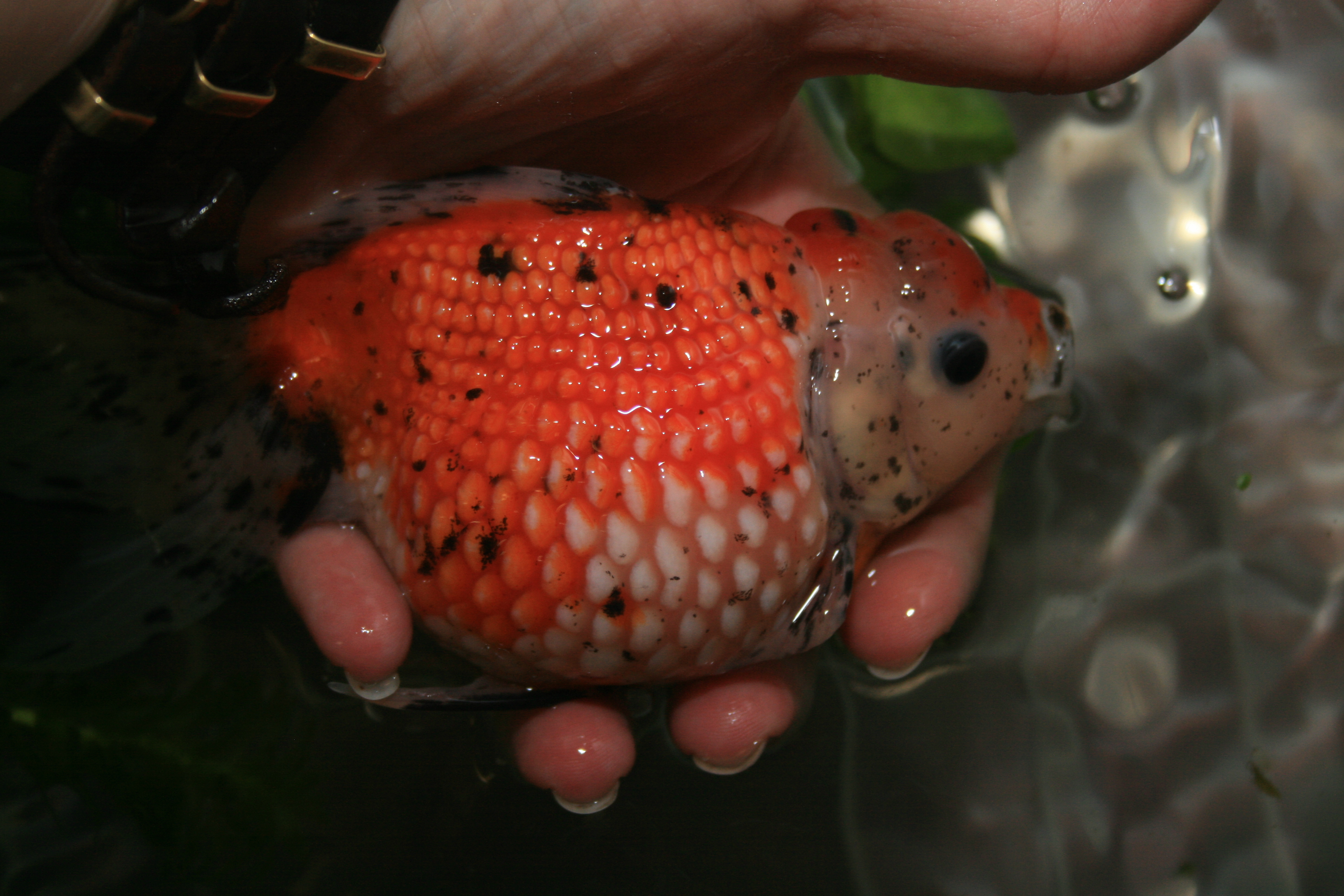 Large Ping Pong Pearlscale Goldfish being held above the water for the photograph. From A Retail Goldfish Shop in Audenshaw, Manchester, England UK.